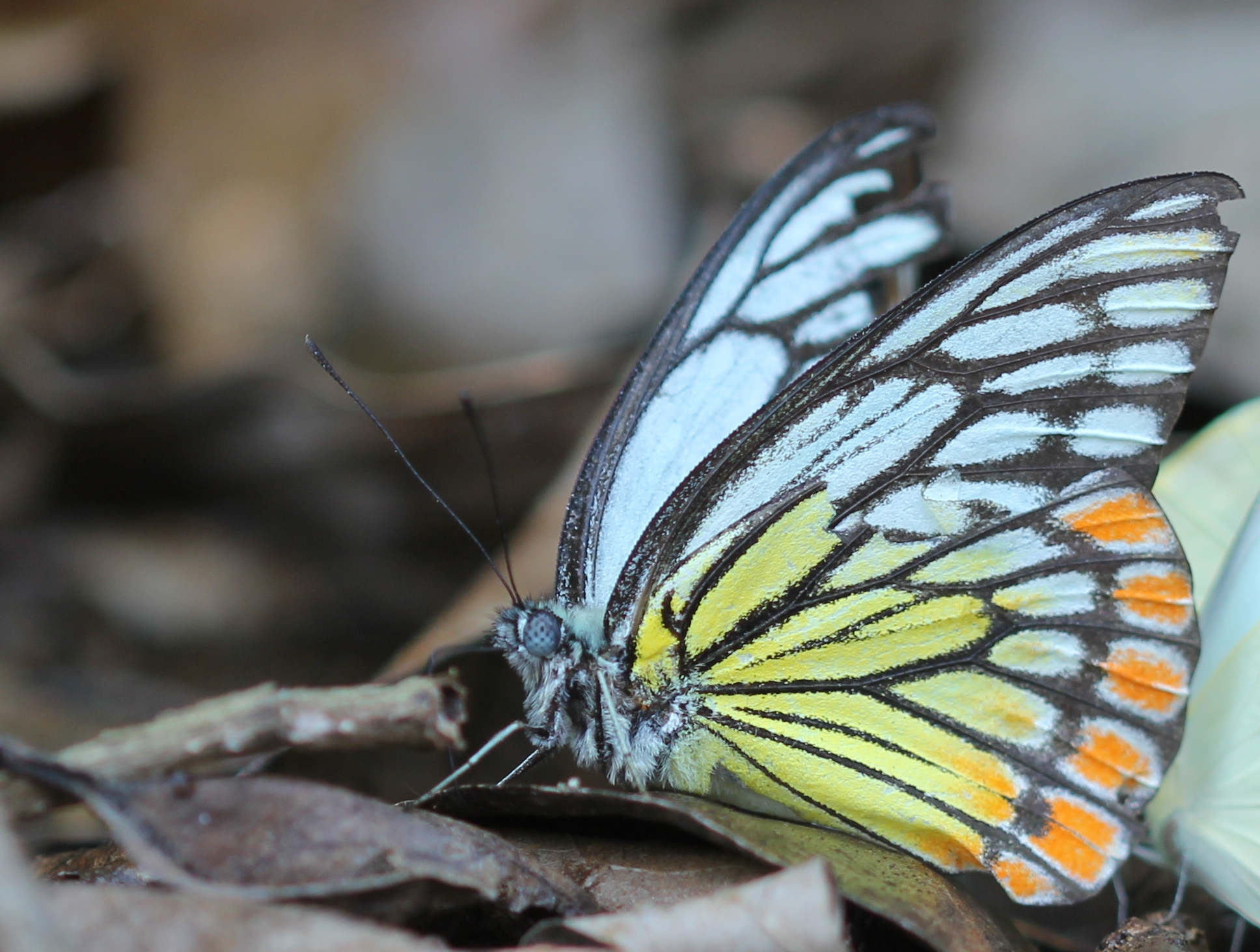 Painted Sawtooth mudpuddling in someshwara